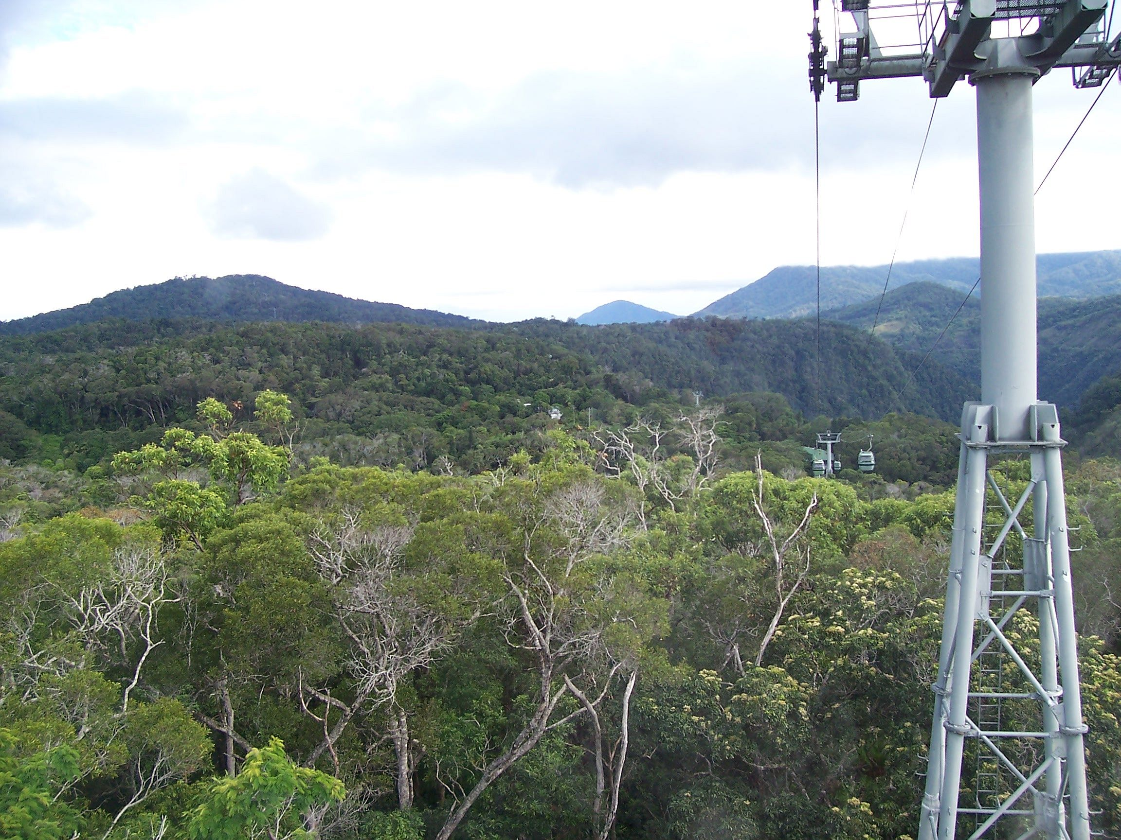 Photo from the Skyrail at Kuranda, Queensland